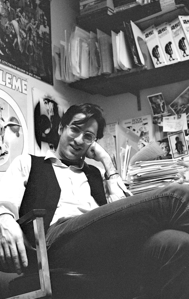 Lou and I were friends for many years, and at one point I was working in the building next door to the National Lampoon / Heavy Metal offices on Madison Ave. One evening after work I dropped by to visit and he asked me to take his photo, Tri-X, available light. He posed himself with with great deliberation, and, well, a few years later... he was gone.